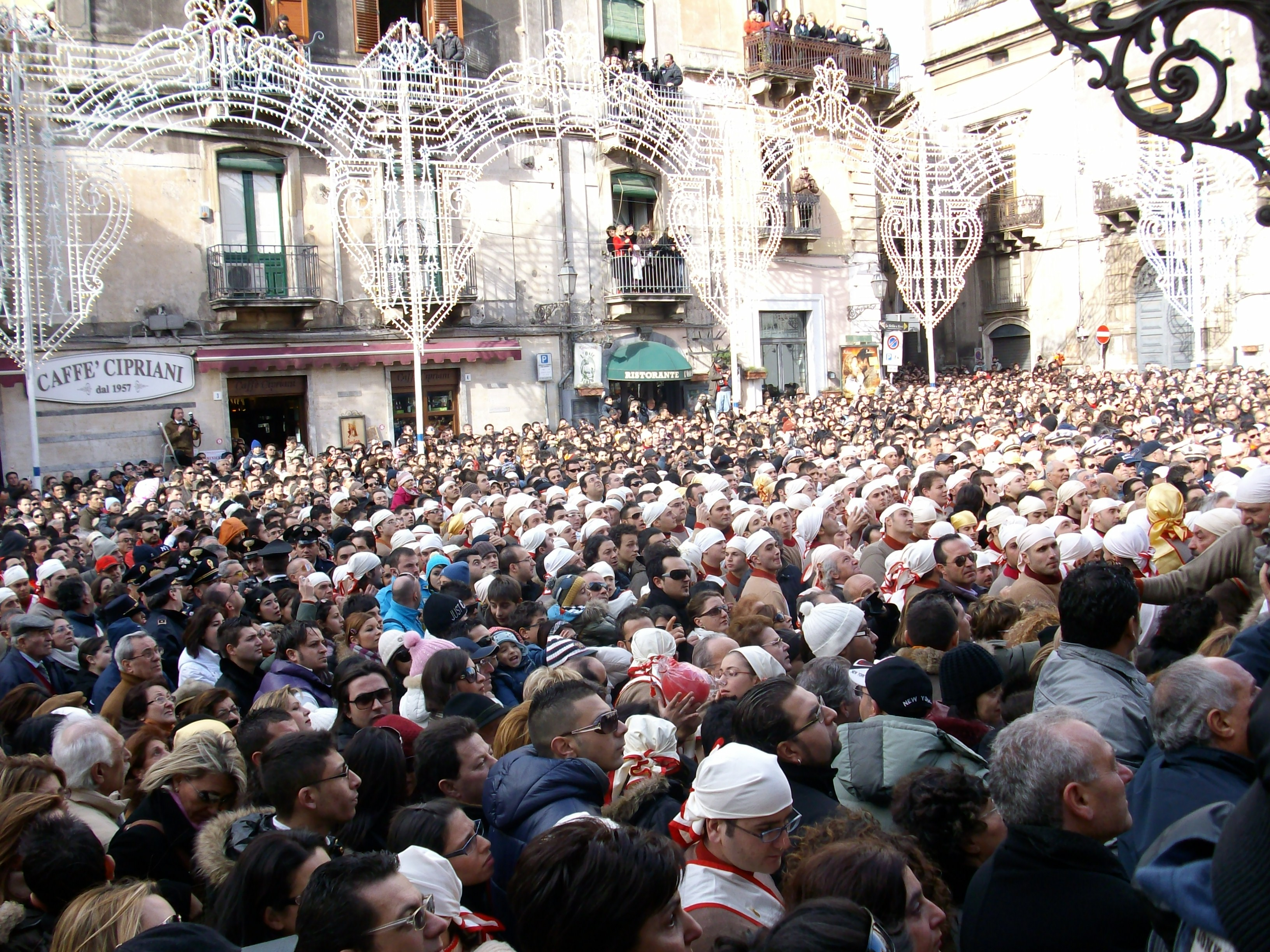 Thisi is the people in Place Lionardo Vico.